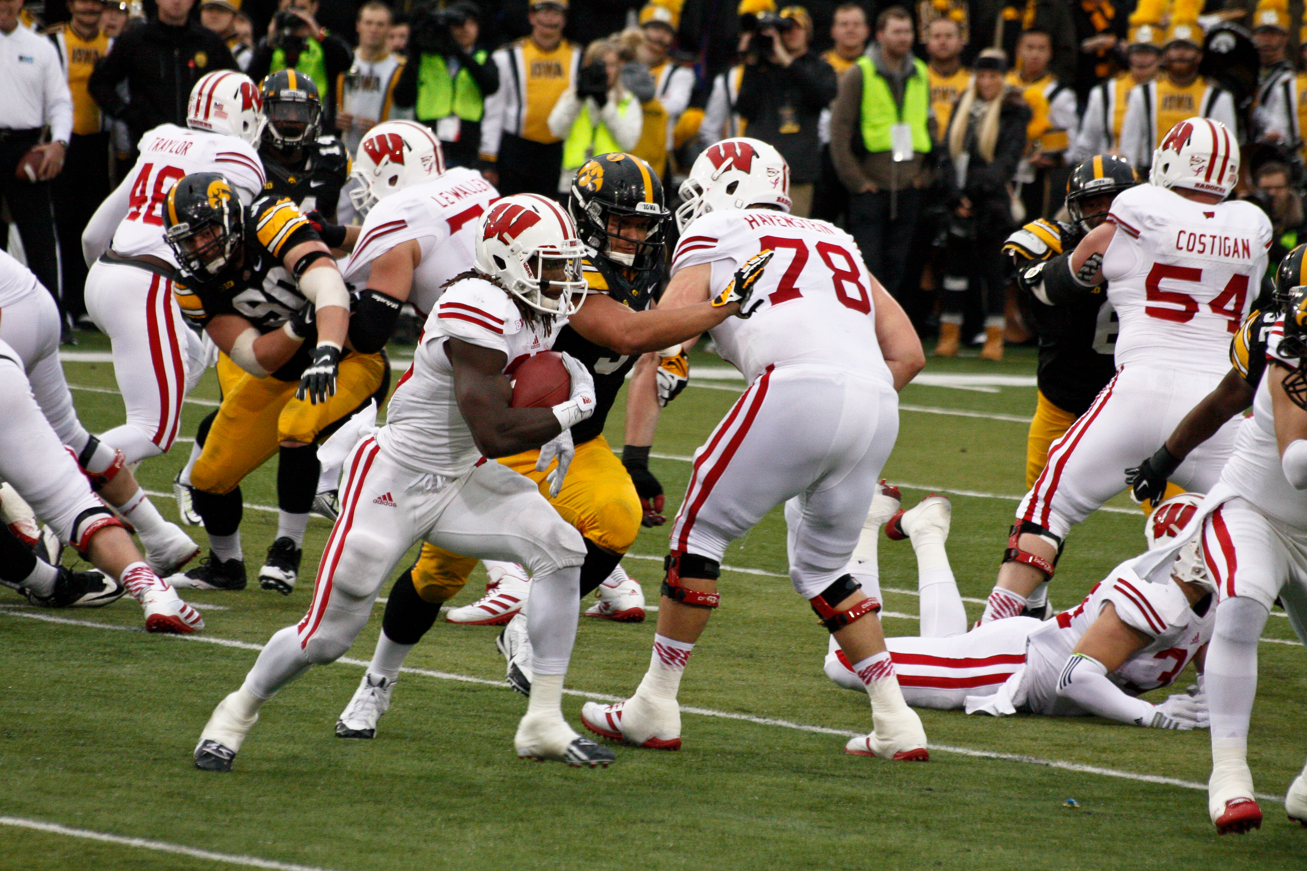 Wisconsin's Melvin Gordon on the run. Photos from the first half of the University of Iowa vs. University of Wisconsin-Madison football game at Kinnick Stadium on November 22, 2014 The Hawkeyes lost to the Badgers 26-24.